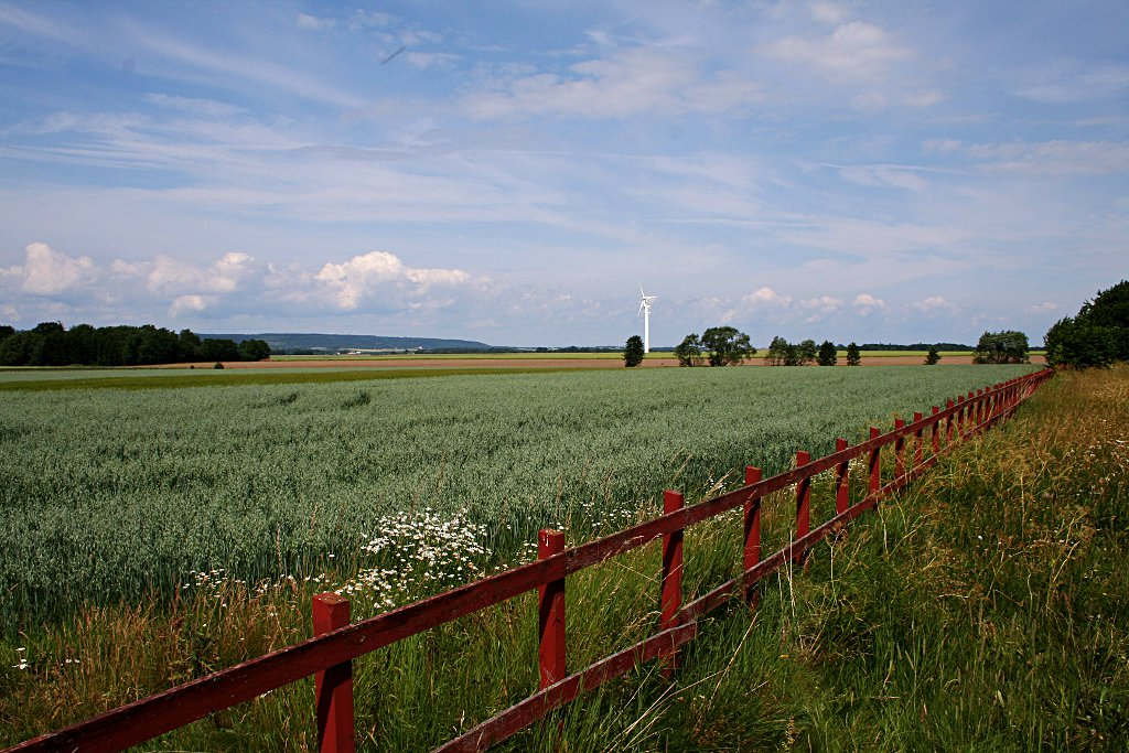 Wind power in landscape